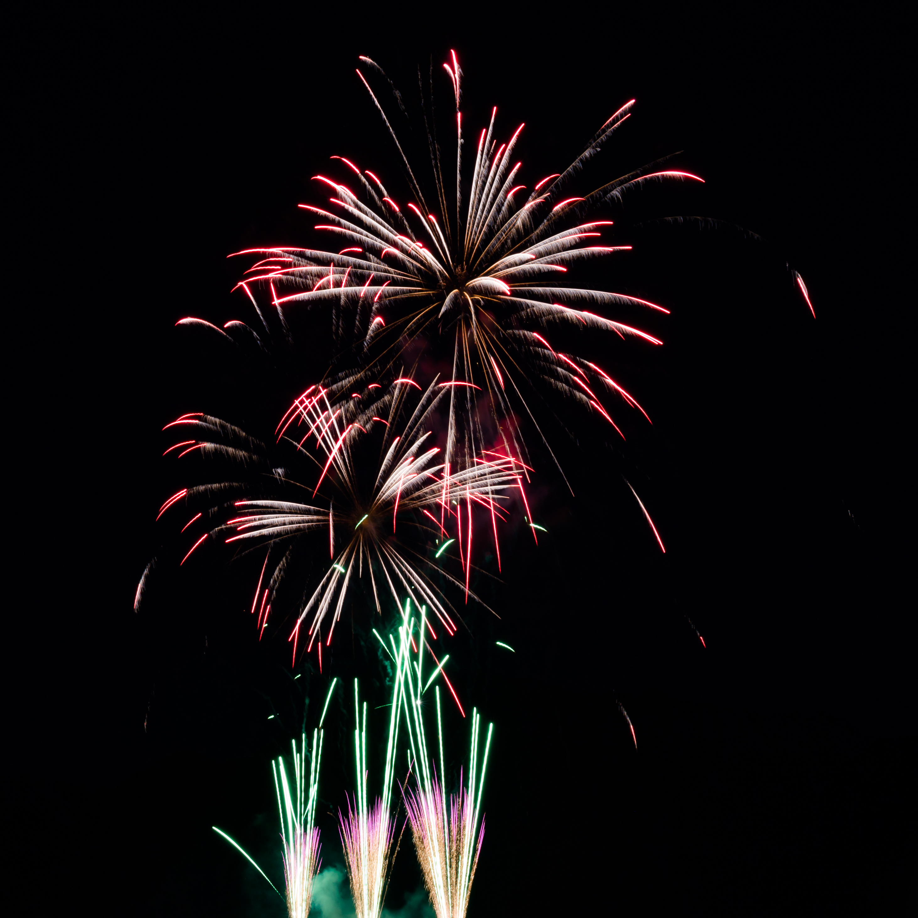 Fireworks in Annecy, France.